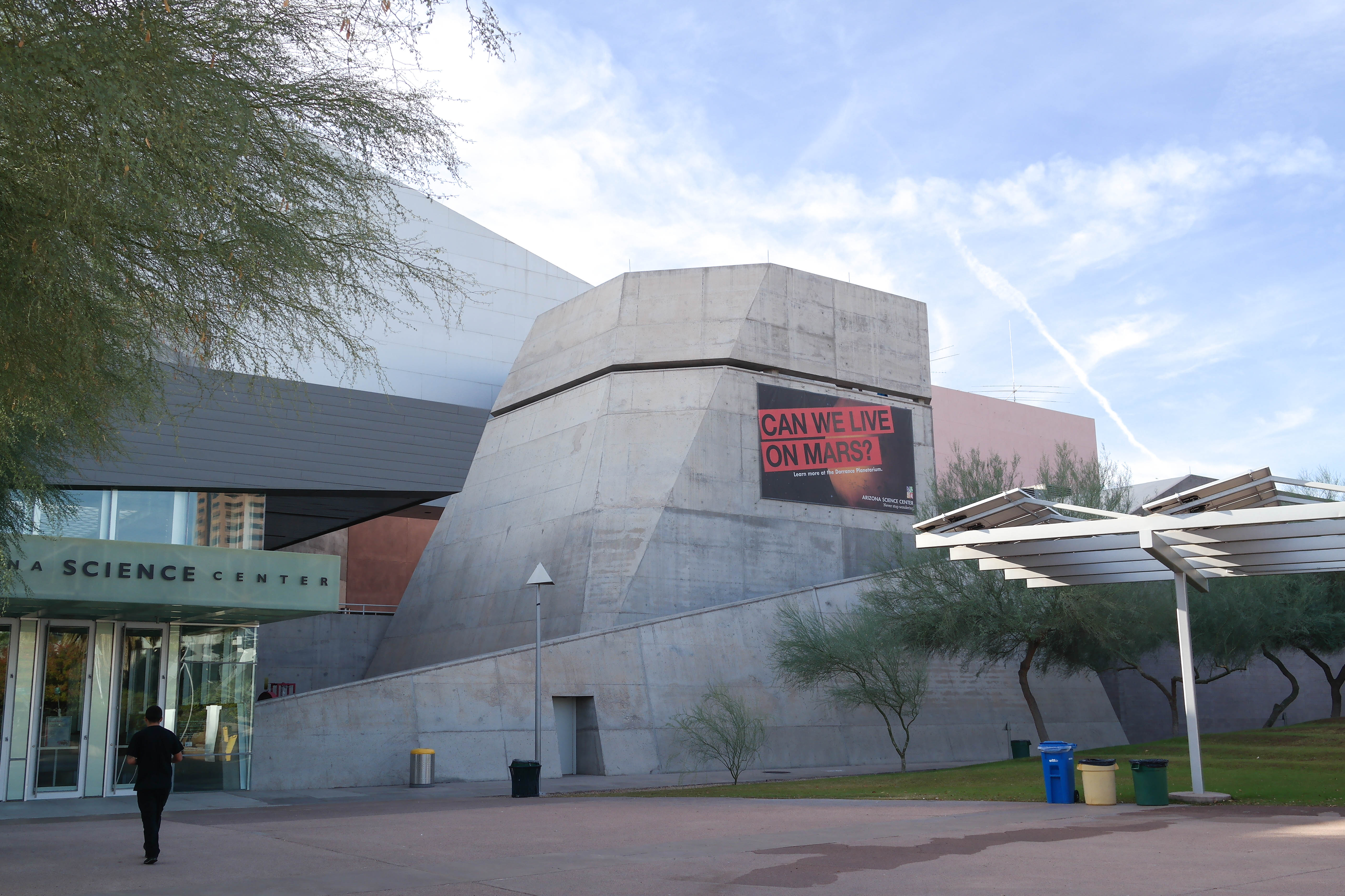 The Arizona Science Center in Phoenix